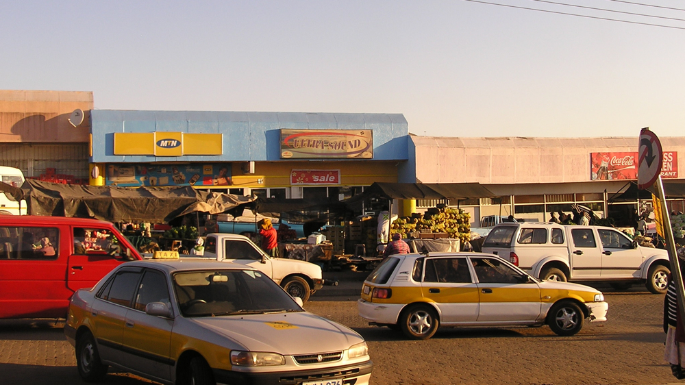 Open air market in dowtown Maputsoe